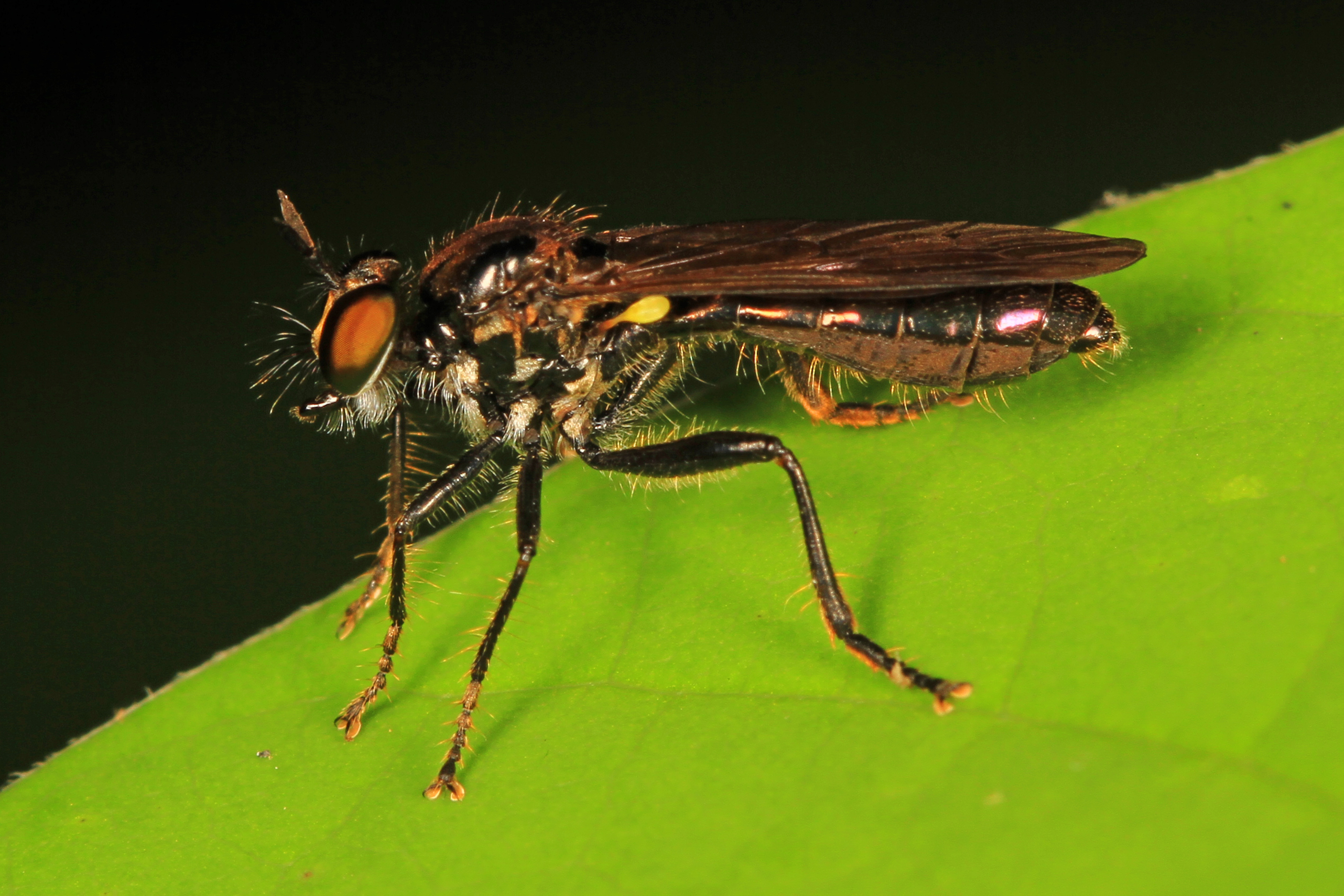 Robber Fly - Eudoctria albius, Leesylvania State Park, Woodbridge, Virginia.